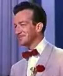 Harry James in Best Foot Forward (1943).